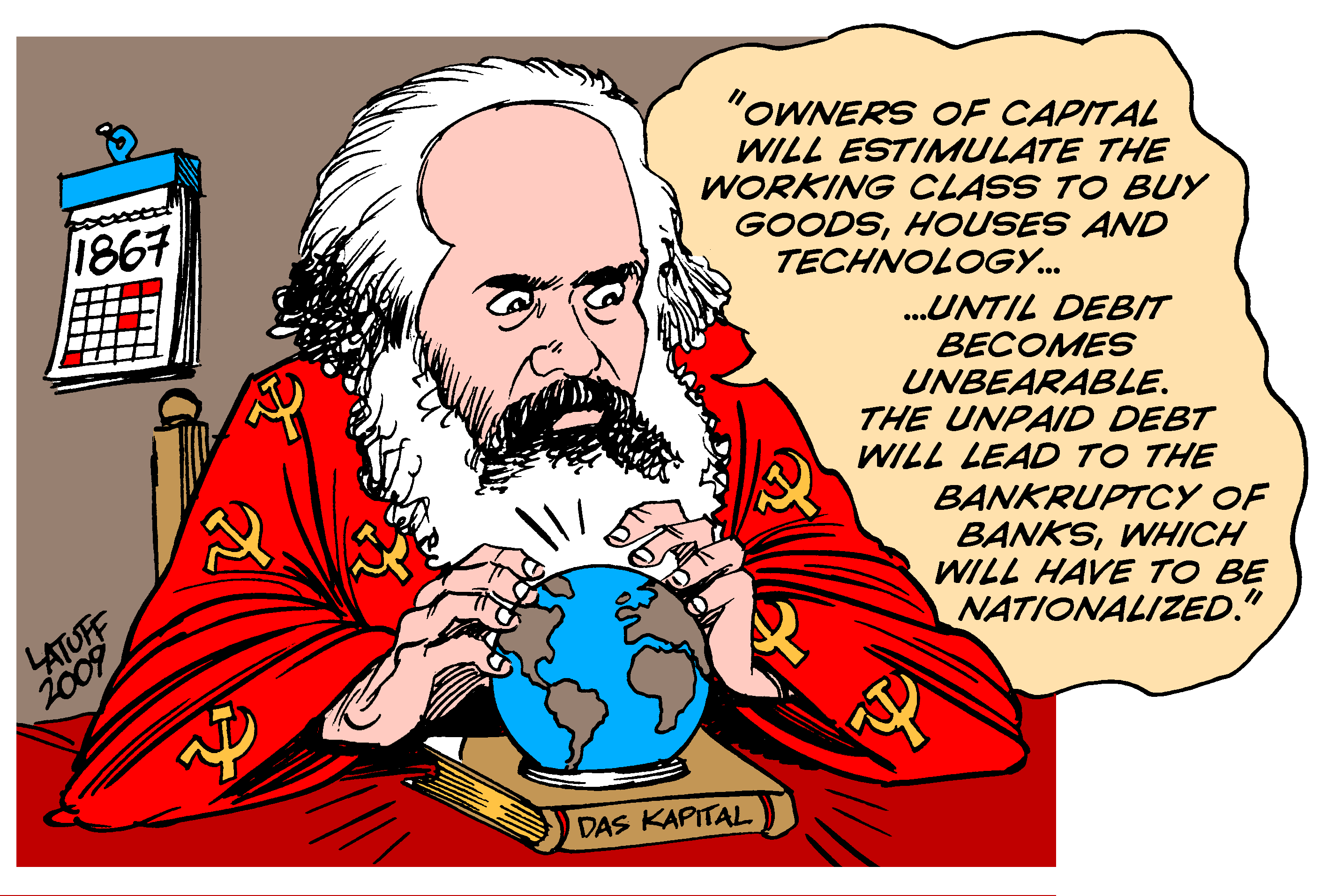 Karl Marx, The Prophet